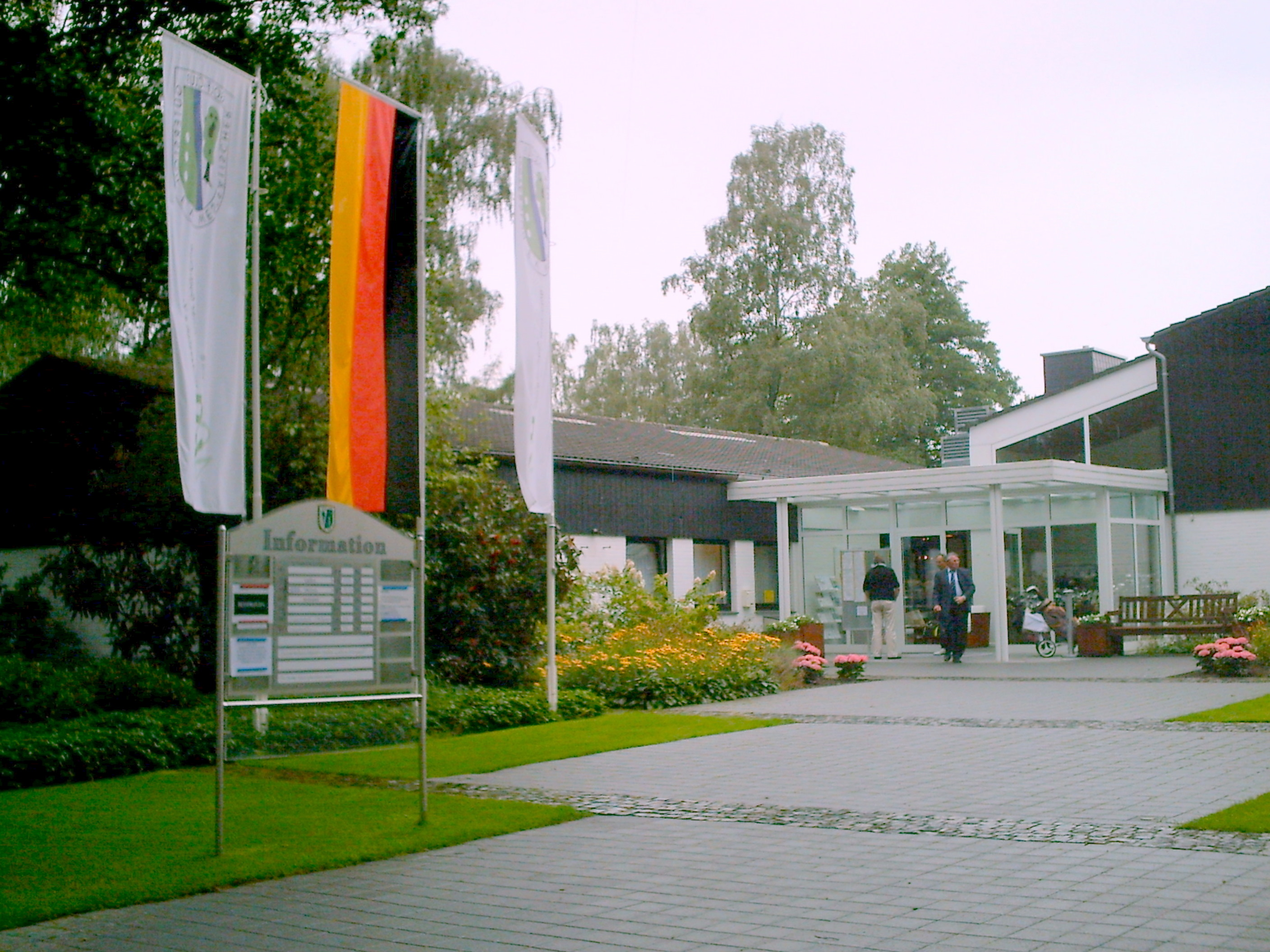 Club house of the Golfclub Gütersloh in Rietberg, Germany